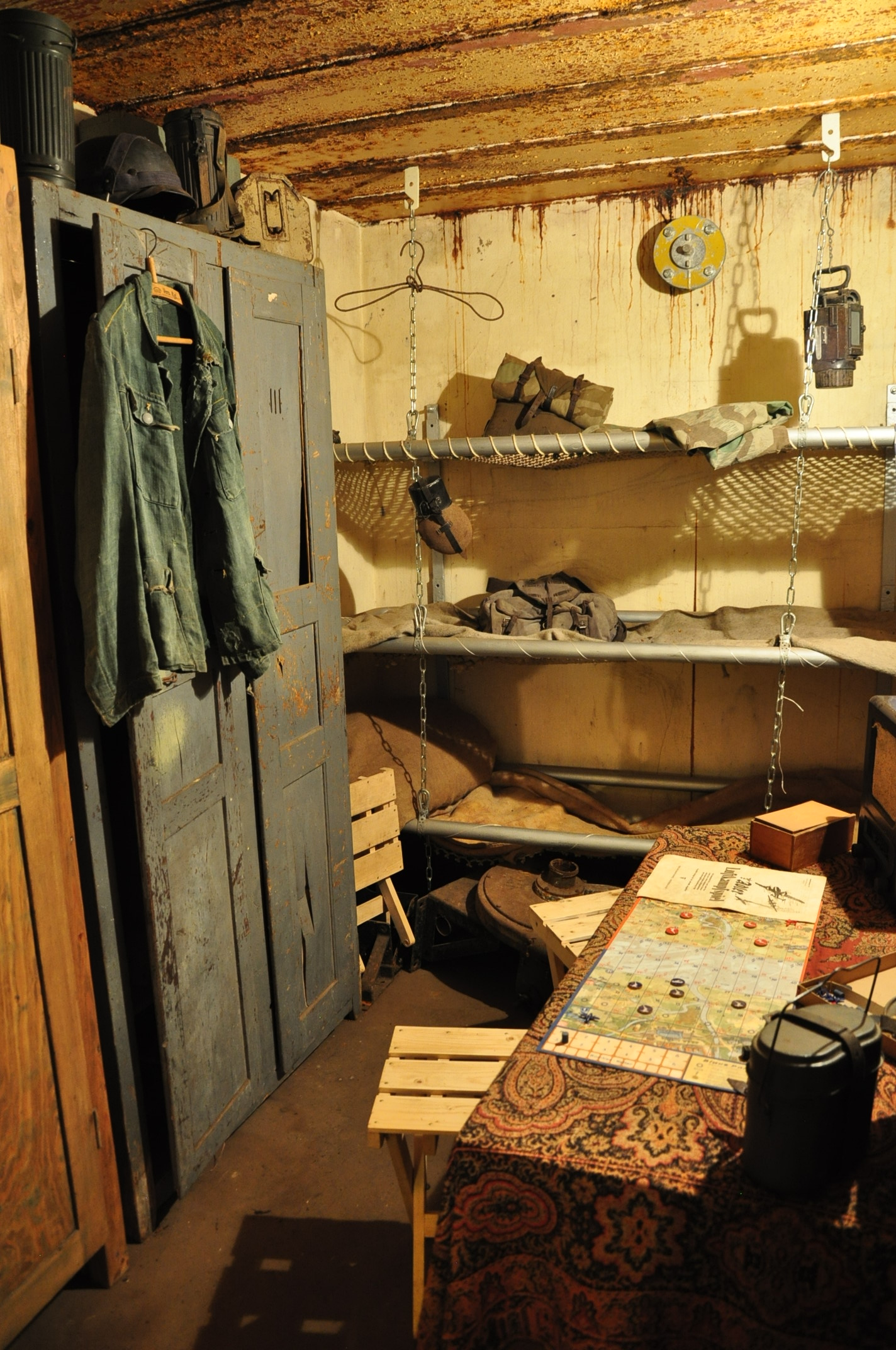 Sleeping quarters in the Atlantic Wall Museum in Scheveningen (near The Hague, Netherlands). This museum has a permament exhibition in an original German command bunker (of the type 608, Bataillon, Abteilung oder Regiments Gefechtsstand).